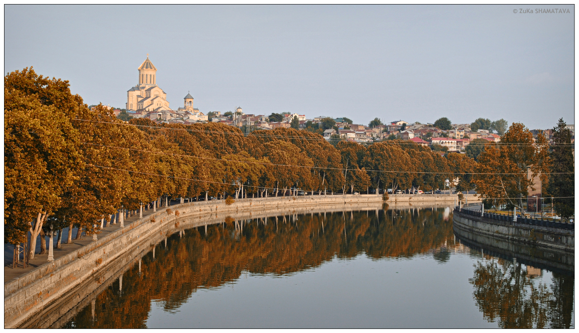 The view on Sameba cathedral from central Tbilisi